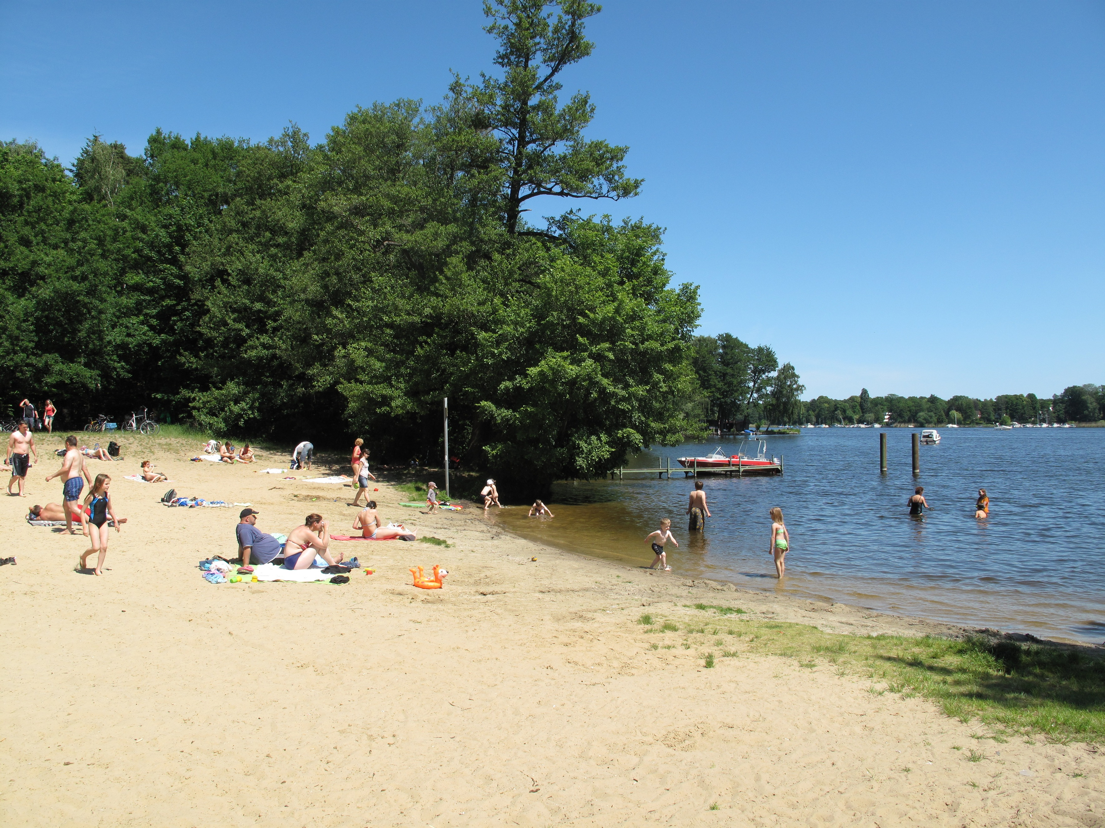 The „Bürgerablage“ is a beach of the river Havel in Berlin, Borough Spandau, locality Hakenfelde.